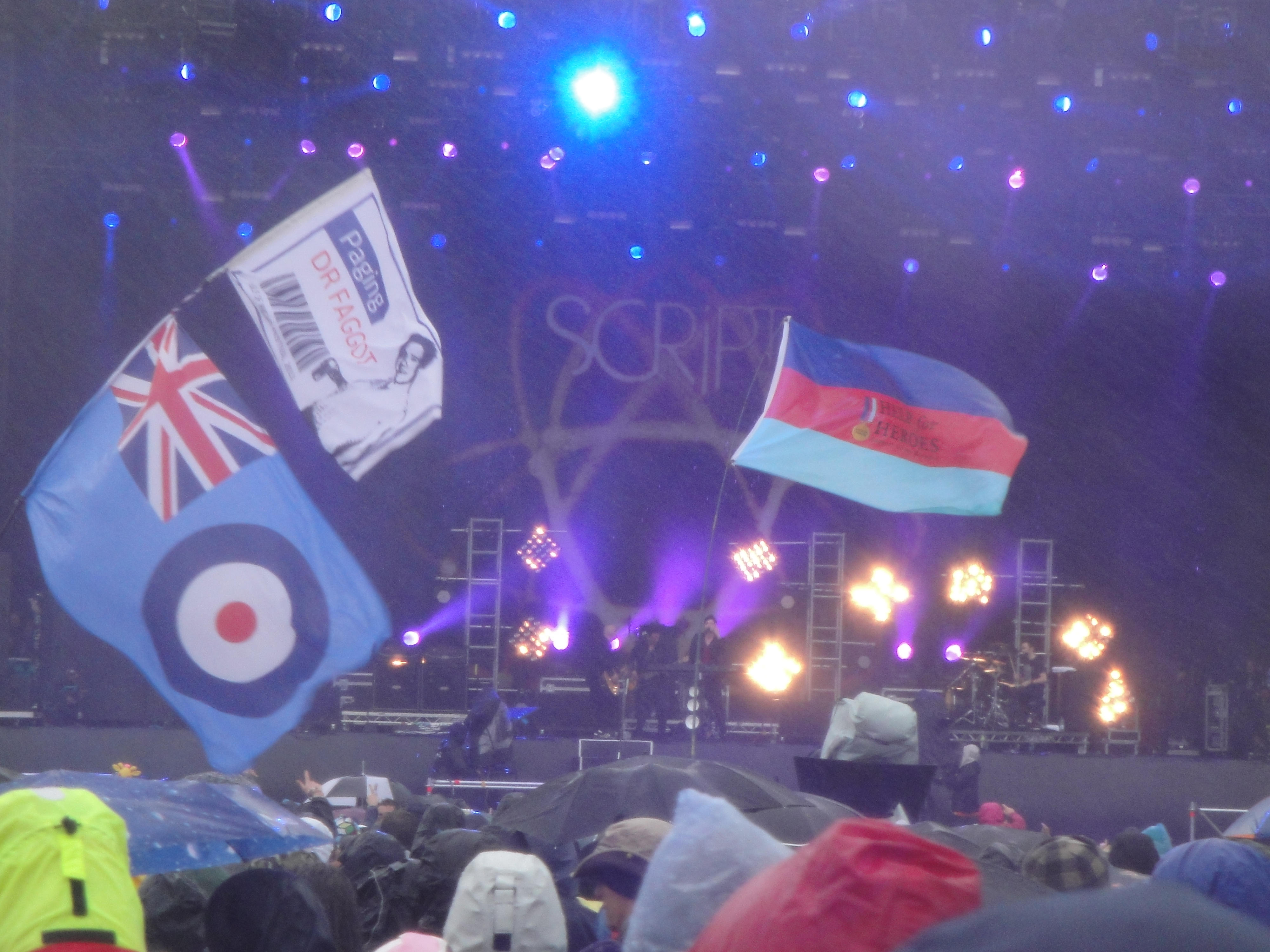 The Script, performing at the Isle of Wight Festival 2011, held in Seaclose Park, Newport, Isle of Wight. The Script played on Sunday, which rained heavily throughout the day, as can be seen by the number of umbrellas in the crowd.